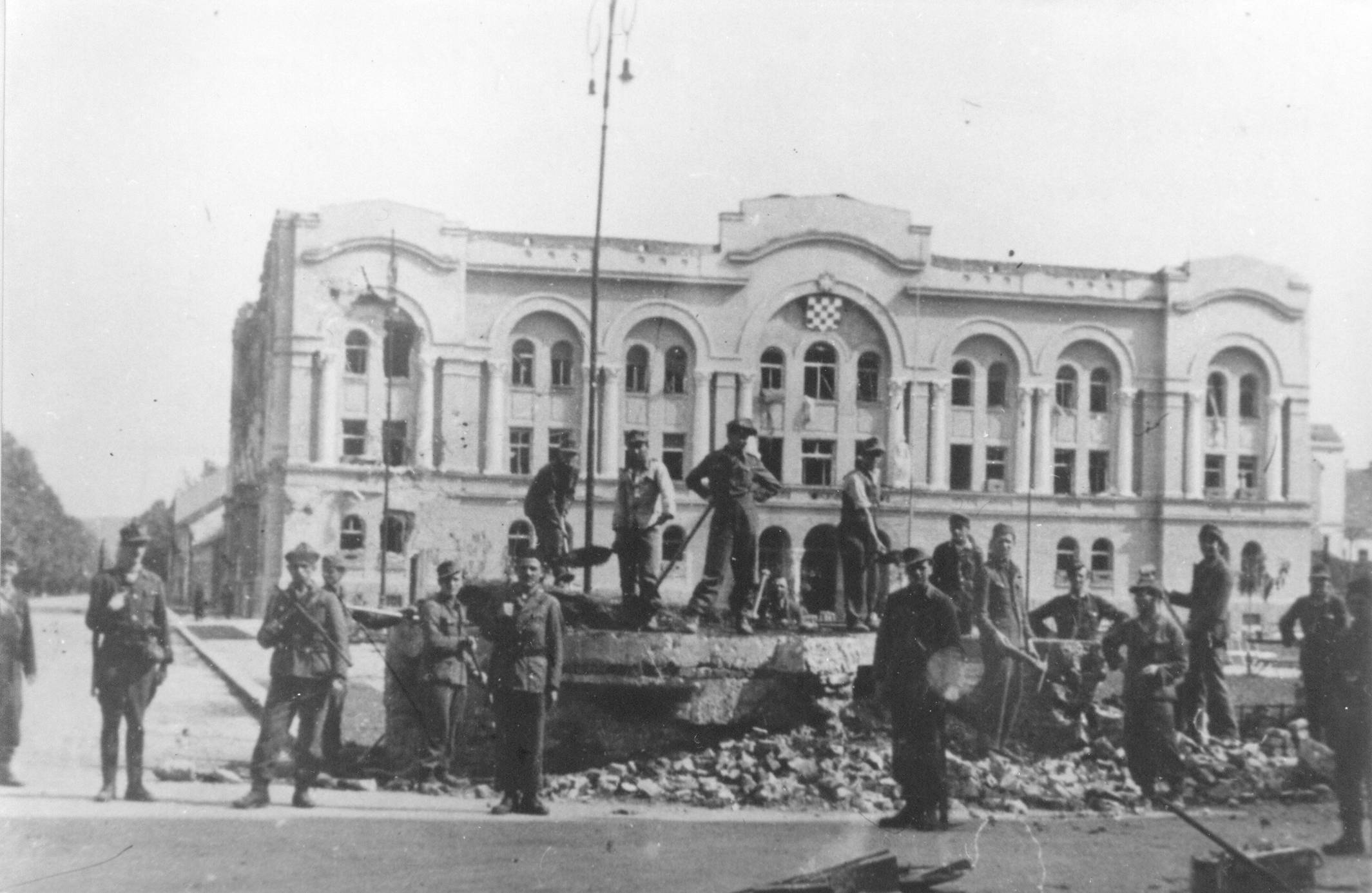 Banja Luka after liberation in september 1944, captured ustaše under armed guard demolish bunker.